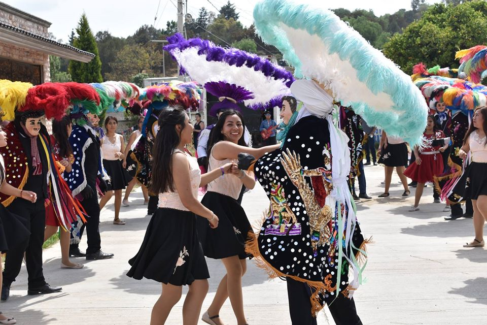 Dance that runs every year at the carnival festivities, in the town of Xiloxochitla in Mexico This photo has been taken in the country: Mexico